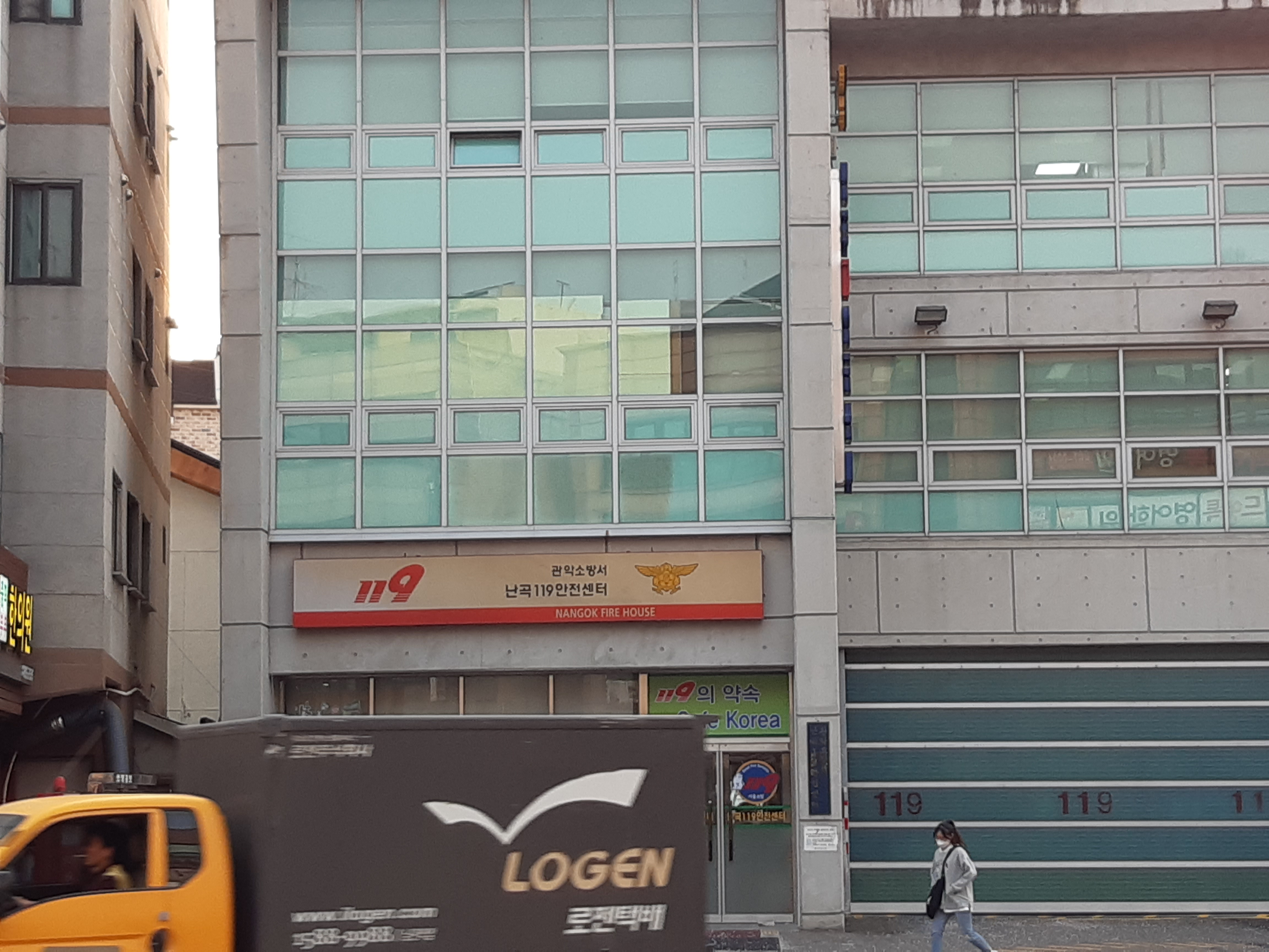 Nangok-ro Nangok119 fire Station